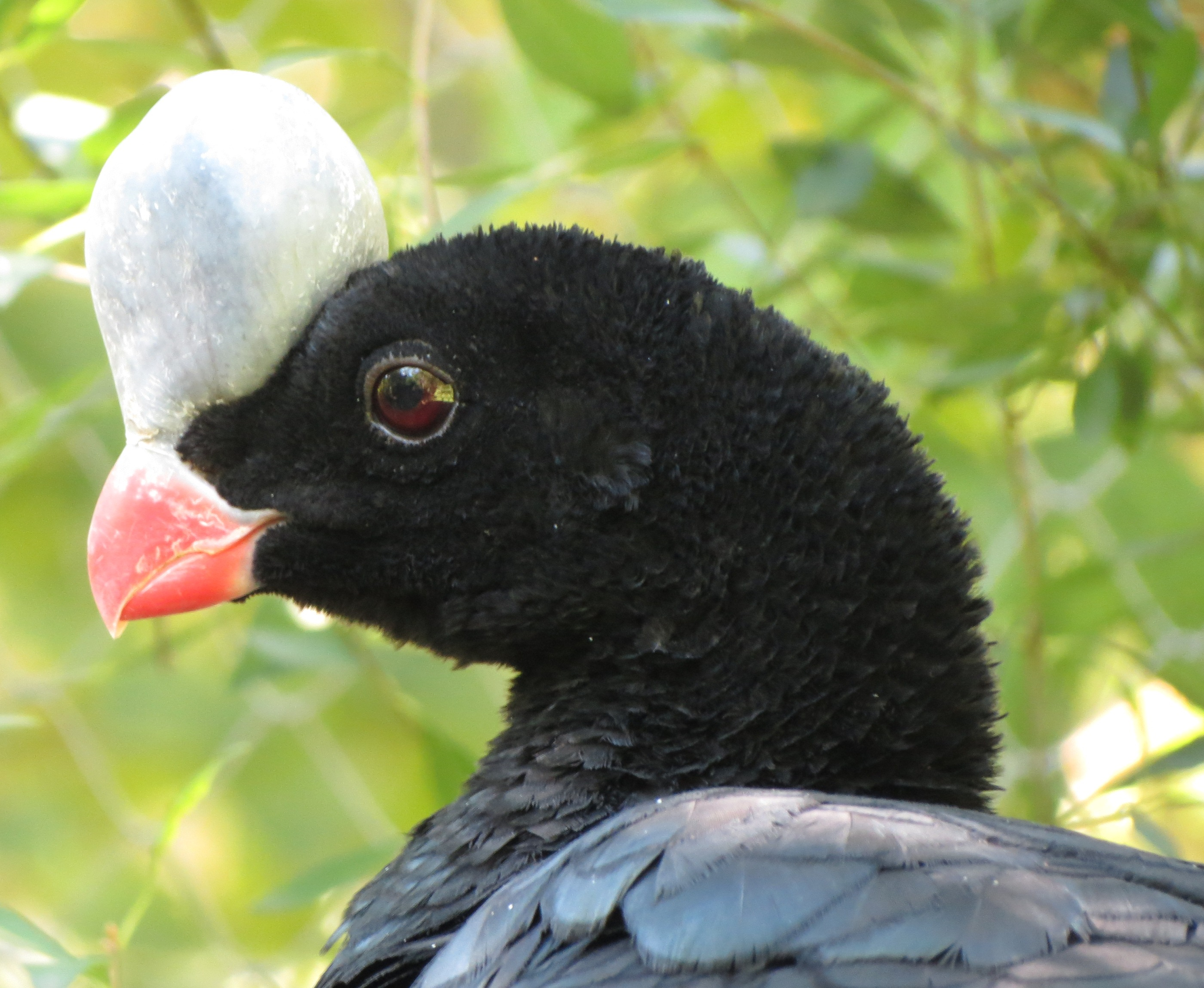 A Helmeted Curassow at Denver Zoo, Colorado, USA.